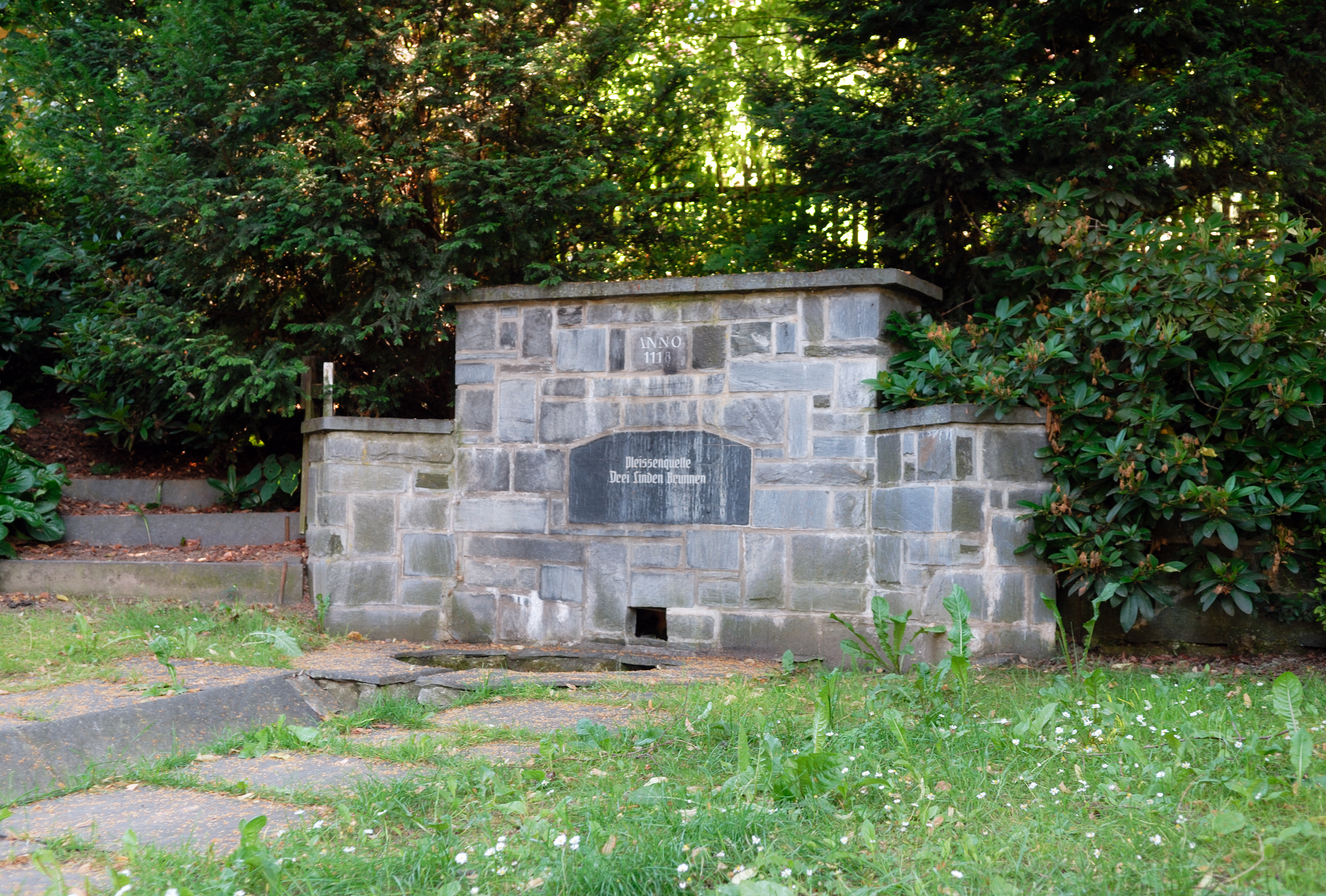 This image shows the well of the river Pleiße.